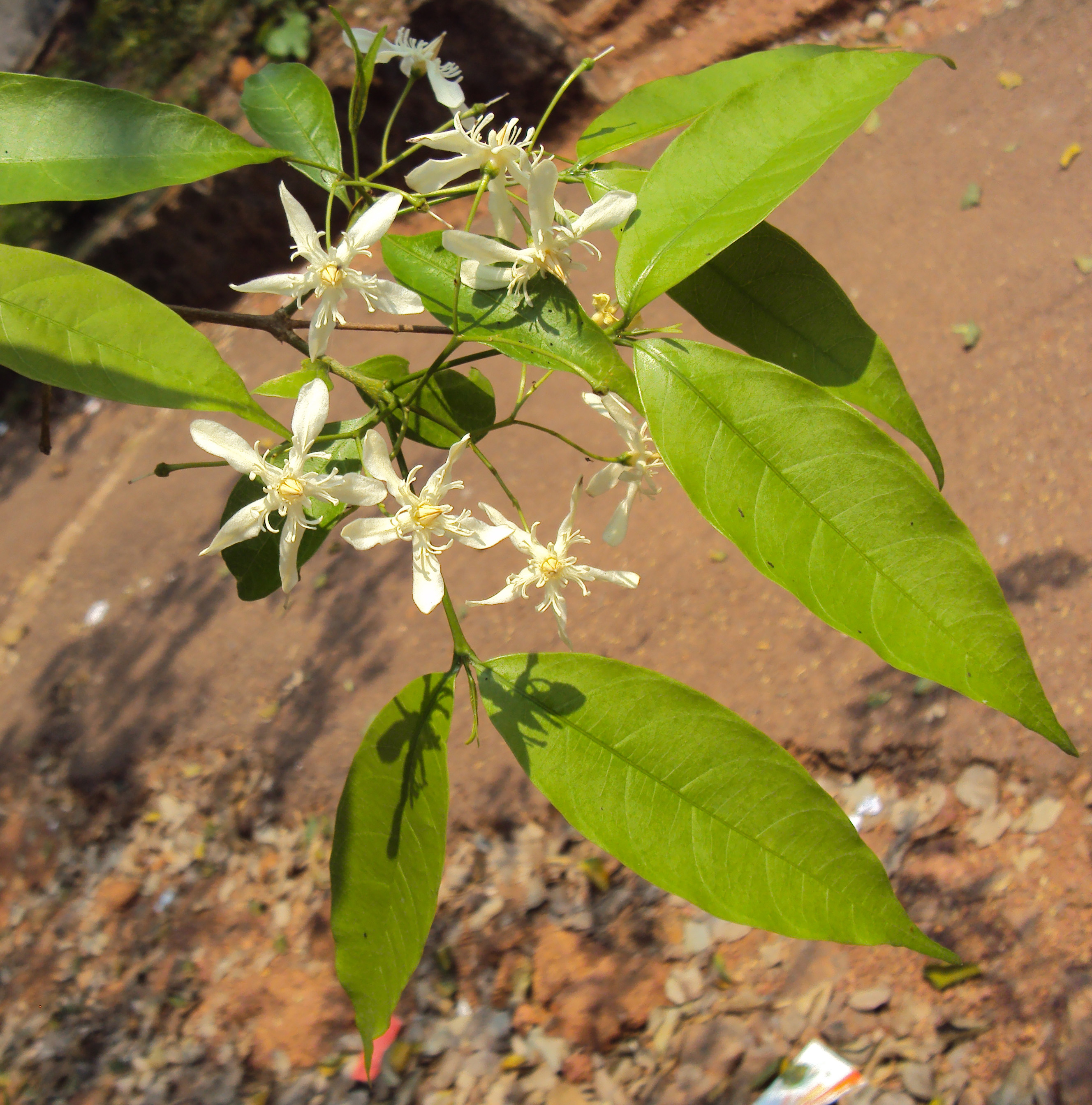 Wrightia tinctoria